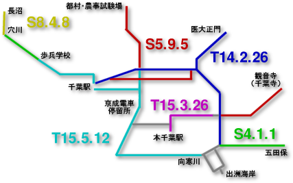 bus lines of Chiba shigai jidosha in 1936